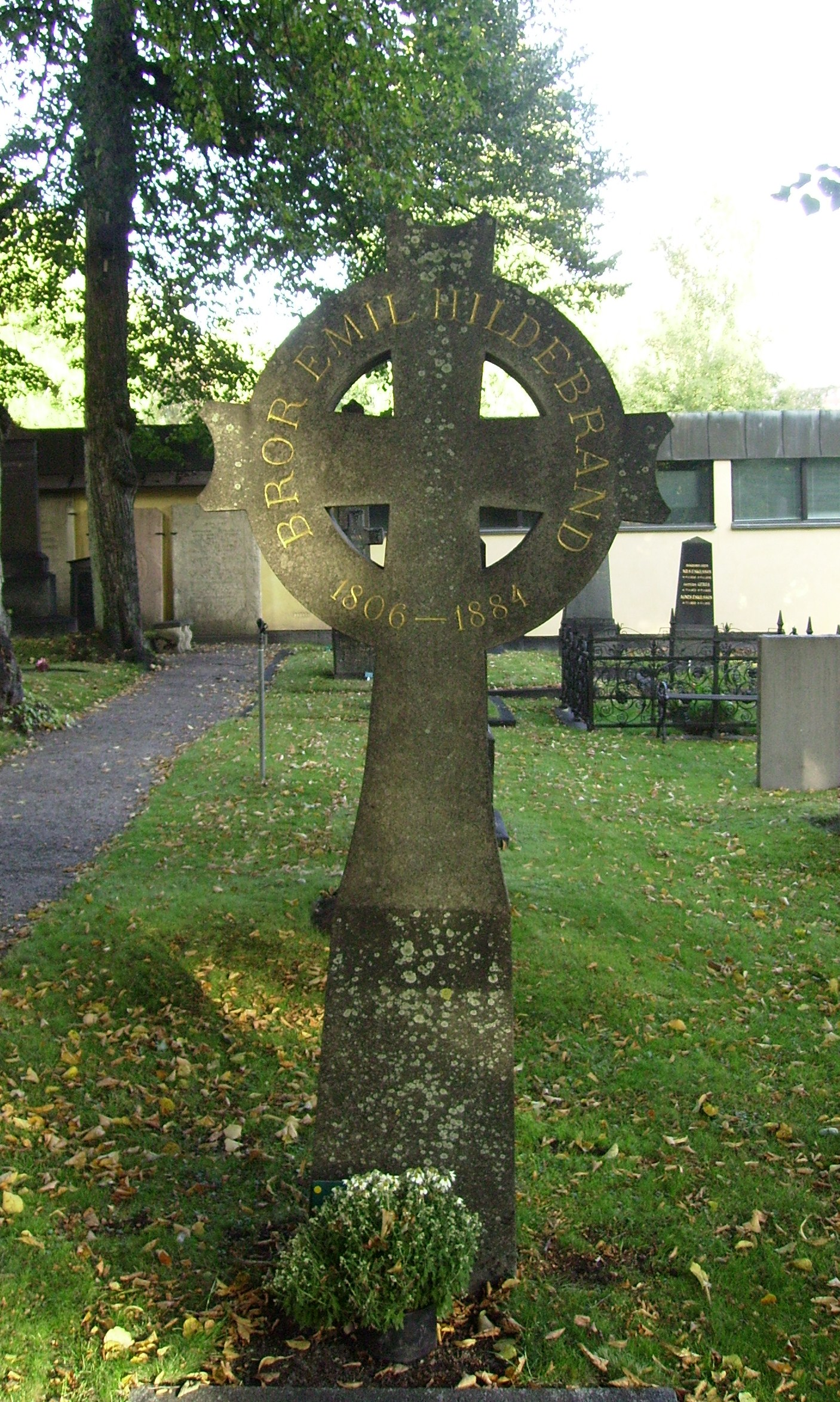 Picture of Bror Emil Hildebrand's grave at Solna kyrkogård